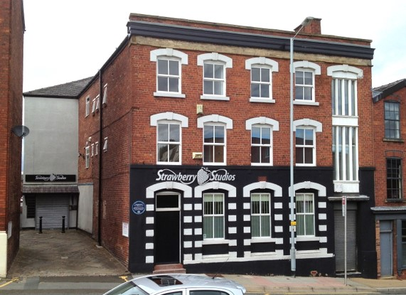 Strawberry Studios, Waterloo Road